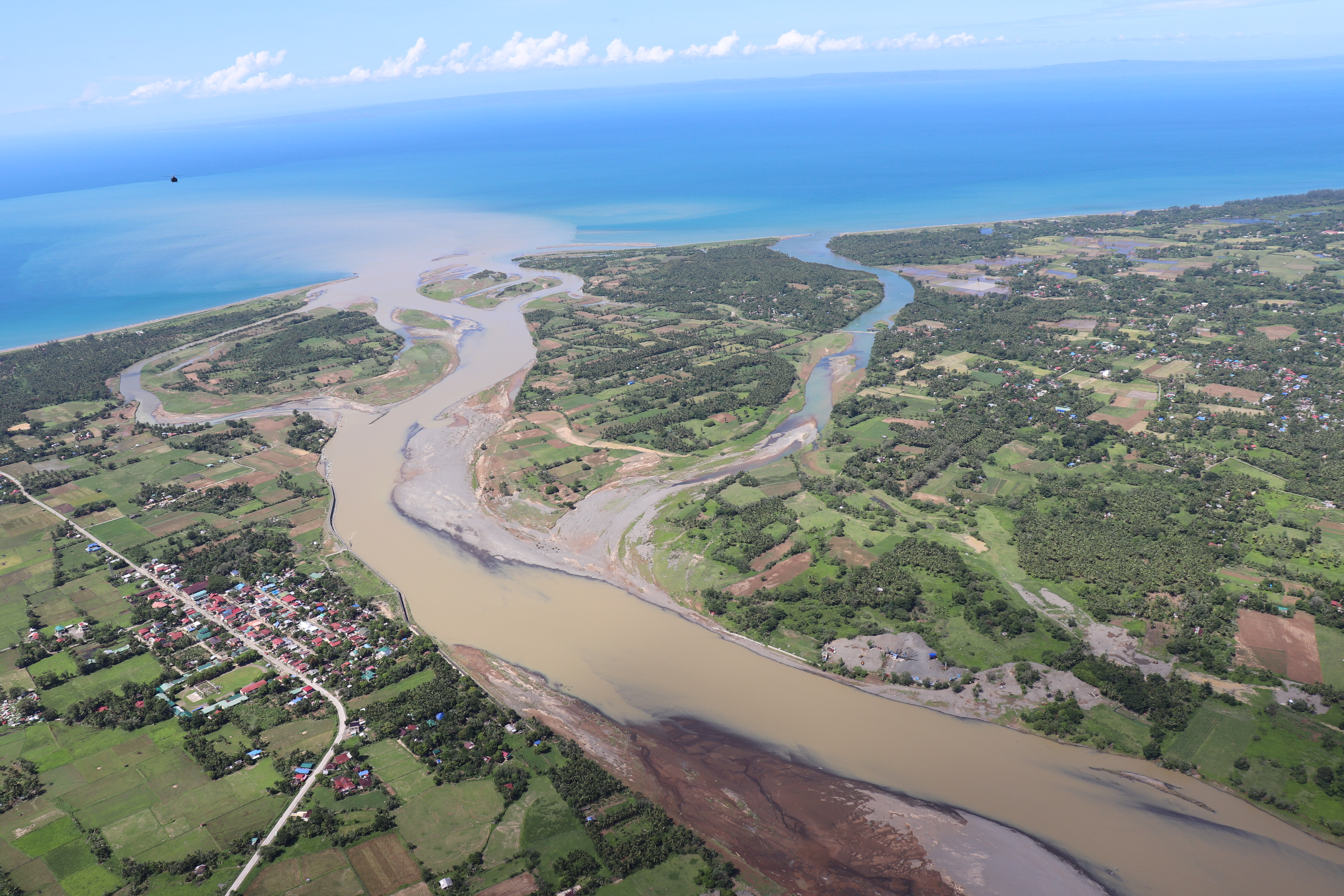 Bird's eye shot of the Agos River in General Nakar taken after the onslaught of Typhoon Vongfong (Ambo) (Larawan ni Mark Bryan Lito/PIA4A)